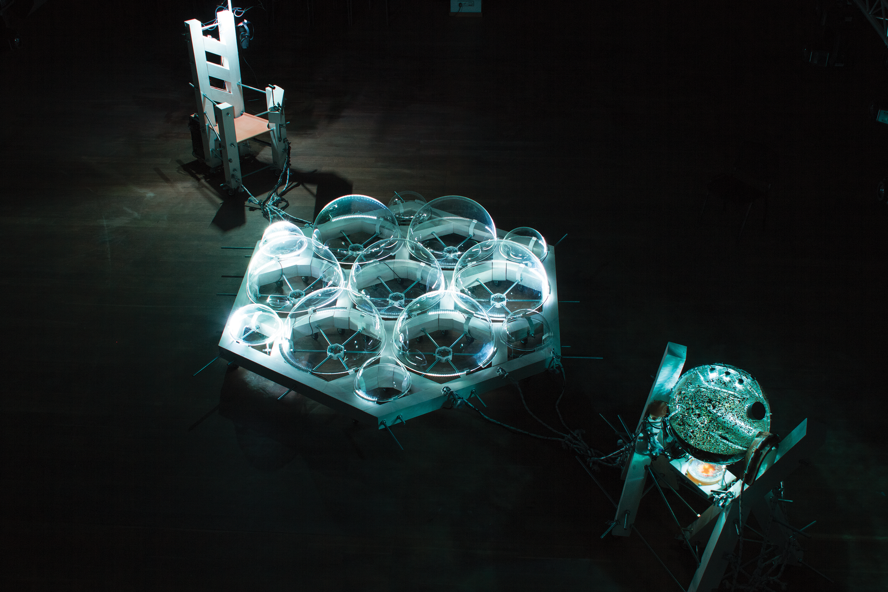 WE – THE COMMON BODY ELVIN FLAMINGO (PL) + INFER – RADOSŁAW DERUBA (PL) + PATRYK CHYLIŃSKI (PL) INSTALLATION, 2016 I am more convinced than ever that we are not alone. – Stephen Hawking (2016) The project has been inspired by the hypothetical megastructure called Freeman Dyson Sphere and the vision of the spread of extraterrestrial life by the same author who predicted the design and manufacture of organisms able to live below and above a thick layer of the ocean’s ice cap on the Europa moon, as well as Joe Davis’ statement: “If you build a bridge, sooner or later somebody’s gonna come across”, the discovery of the planet Proxima Centauri b (commonly referred to as Earth-Like Planet, and the final period of activity around Saturn by the Cassini probe. The WRO 2017 DRAFT SYSTEMS Award at the disposal of the artistic director Elvin Flamingo (PL) + Infer – Radosław Deruba (PL) + Patryk Chyliński (PL) We – The Common Body Statement: 1. Get the beat. 2. Listen to the wisdom of the system. 3. Expose your mental models to the open air. 4. Stay humble. Stay a learner. 5. Honor and protect information. 6. Locate responsibility in the system. 7. Make feedback policies for feedback systems. 8. Pay attention to what is important, not just what is quantifiable. 9. Go for the good of the whole. 10. Expand time horizons. 11. Expand thought horizons. 12. Expand the boundary of caring. 13. Celebrate complexity. 14. Hold fast to the goal of goodness. (Donella H. Meadows, “Dancing with Systems”, 2001)